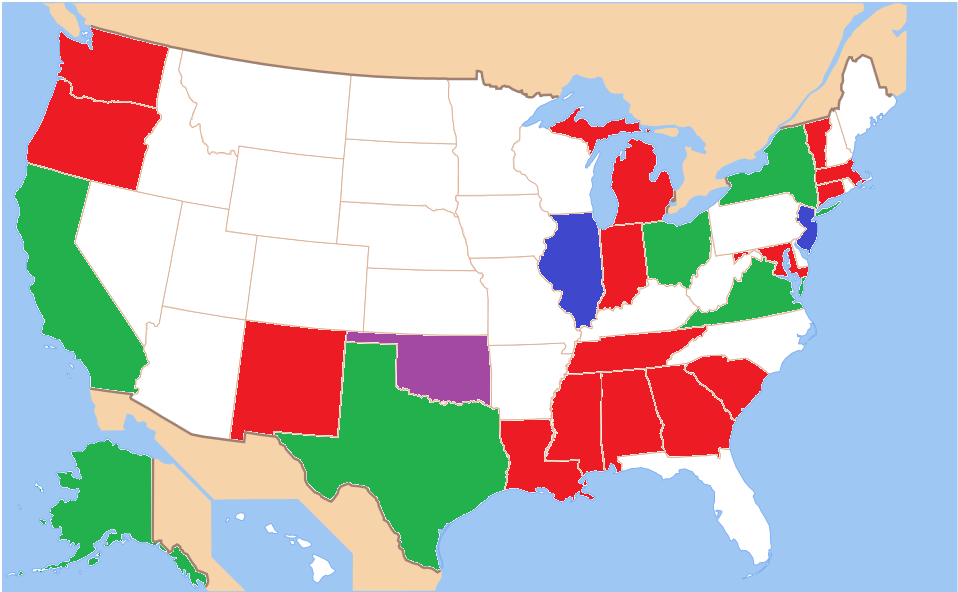 Map highlighting US states with State Defense Forces. States with Army-styled units are highlighted in red, those with naval units are highlighted in blue, and those with both are highlighted in green. Oklahoma is highlighted in purple, indicating its SDF is currently inactive. Puerto Rico is not on the source file, so Puerto Rico isn't shown.